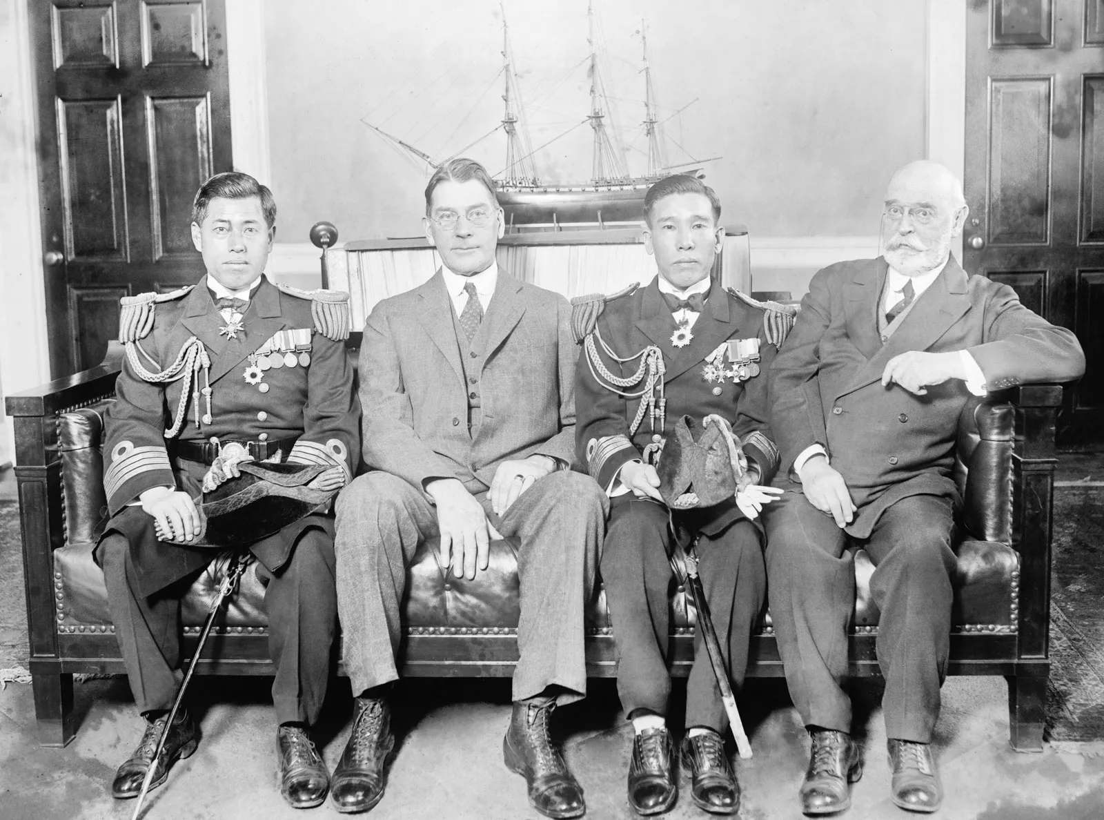 Captain Isoroku Yamamoto, Japanese Naval Attache to the U.S., (left) with U.S. Secretary of the Navy Curtis D. Wilbur